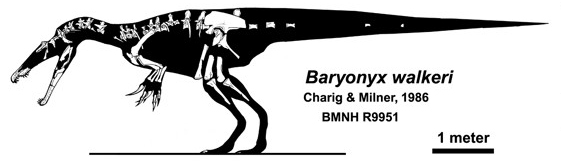 Skeletal reconstruction of Baryonyx walkeri.